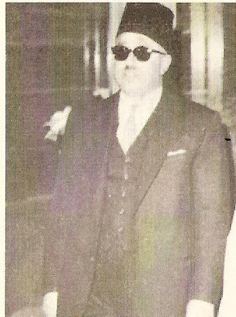 Abdul Majid Kubar, prime minister of Libya (1957-60).